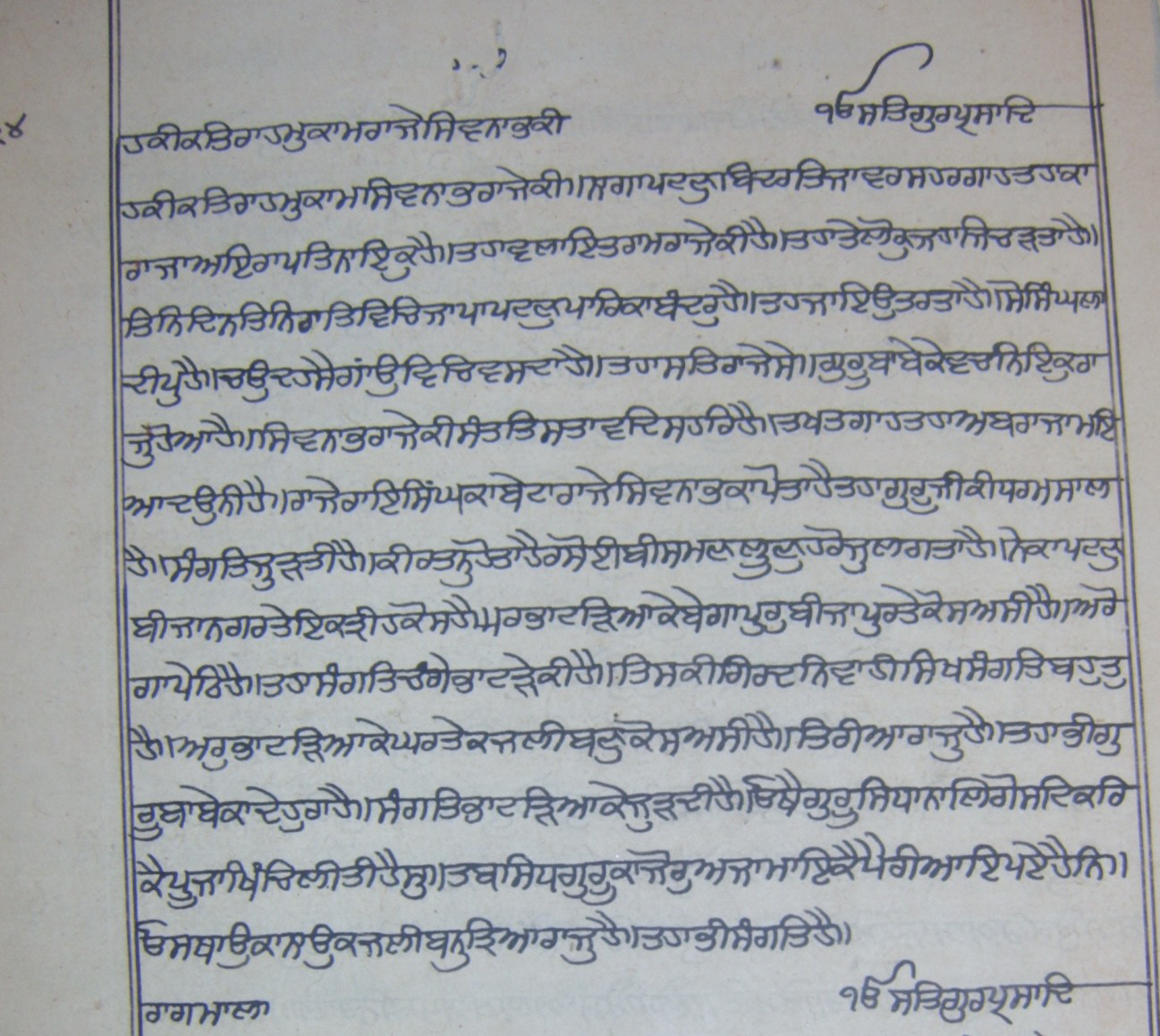 Hakikat-Rah-Muqaam-Shivnabh-Raje-Ki, description of Guru Nanaks travels and meeting of Raja Shivnabh.